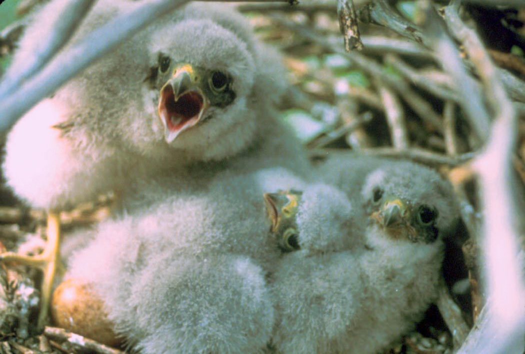 Merlin Falco columbarius chicks in nest